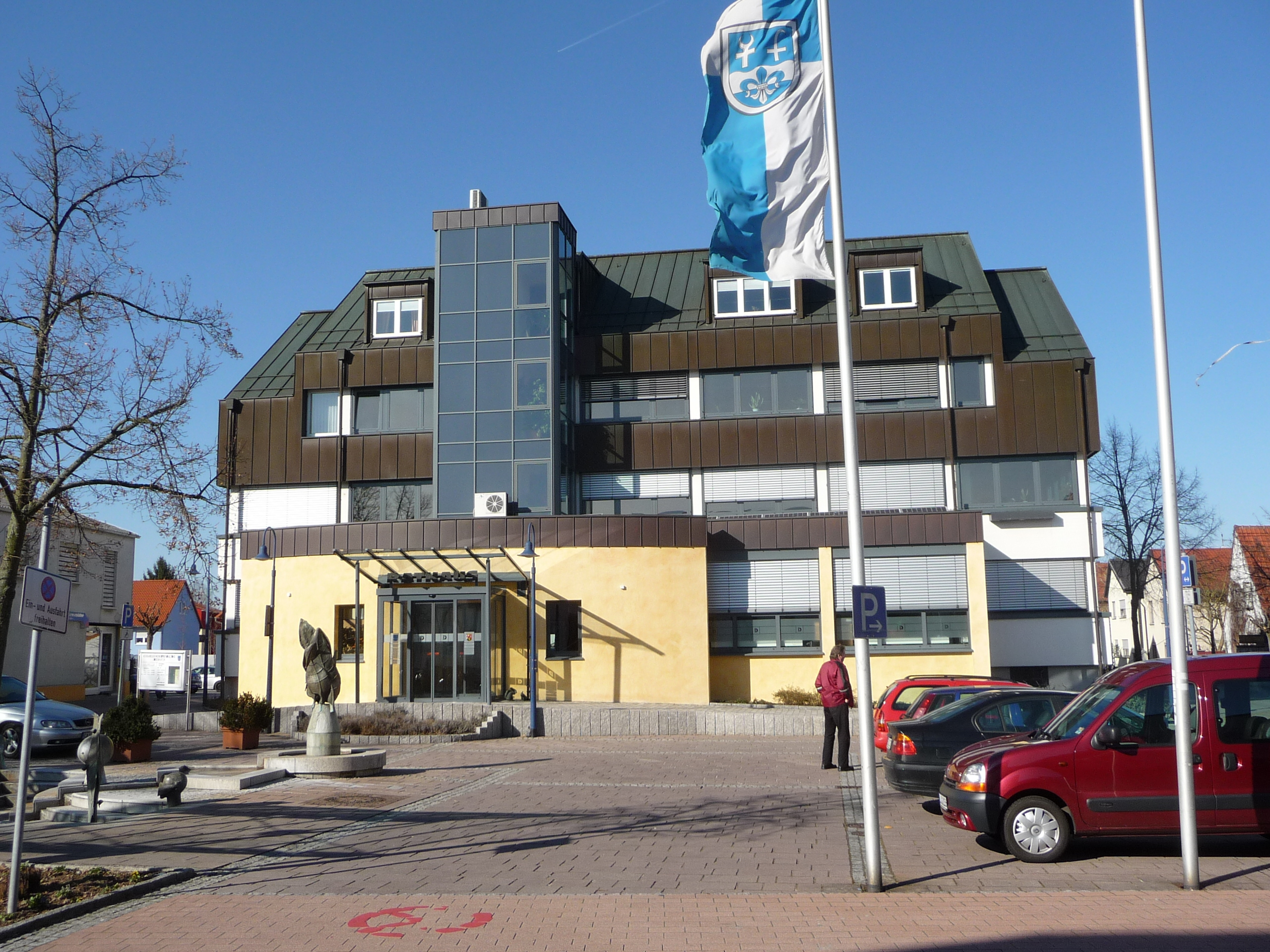 Dudenhofen